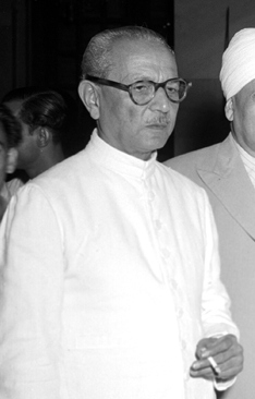 Pandit Jawaharlal Nehru and others at Governor-General‘s Dussehra reception held at Government House, New Delhi on September 29, 1949. Asaf Ali, the then Governor of Orrisa.